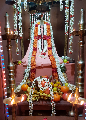 Thamaraikulam Pathi - Palliyarai kaatchi